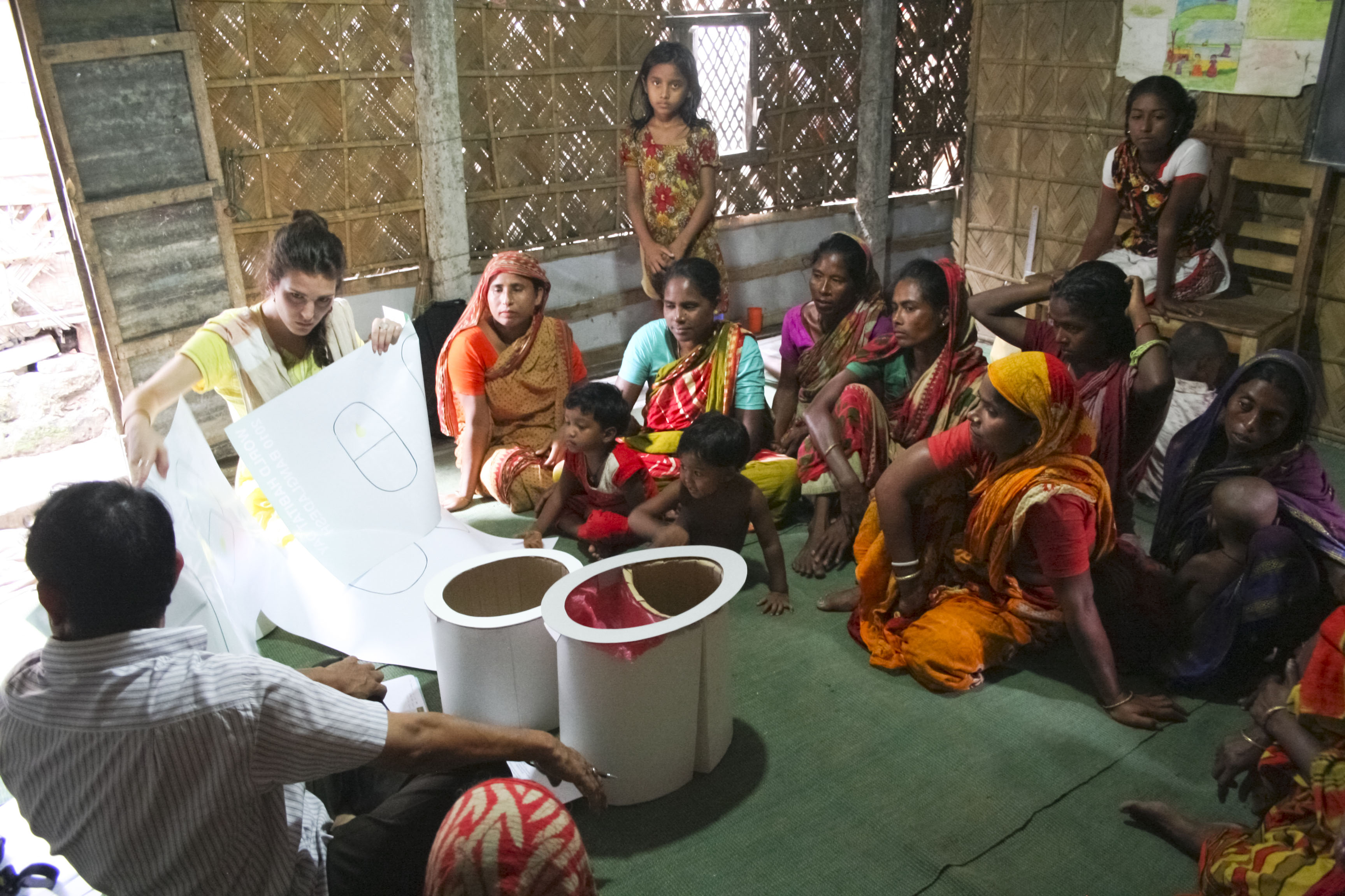 Photo by Ashley Wheaton, May 2011